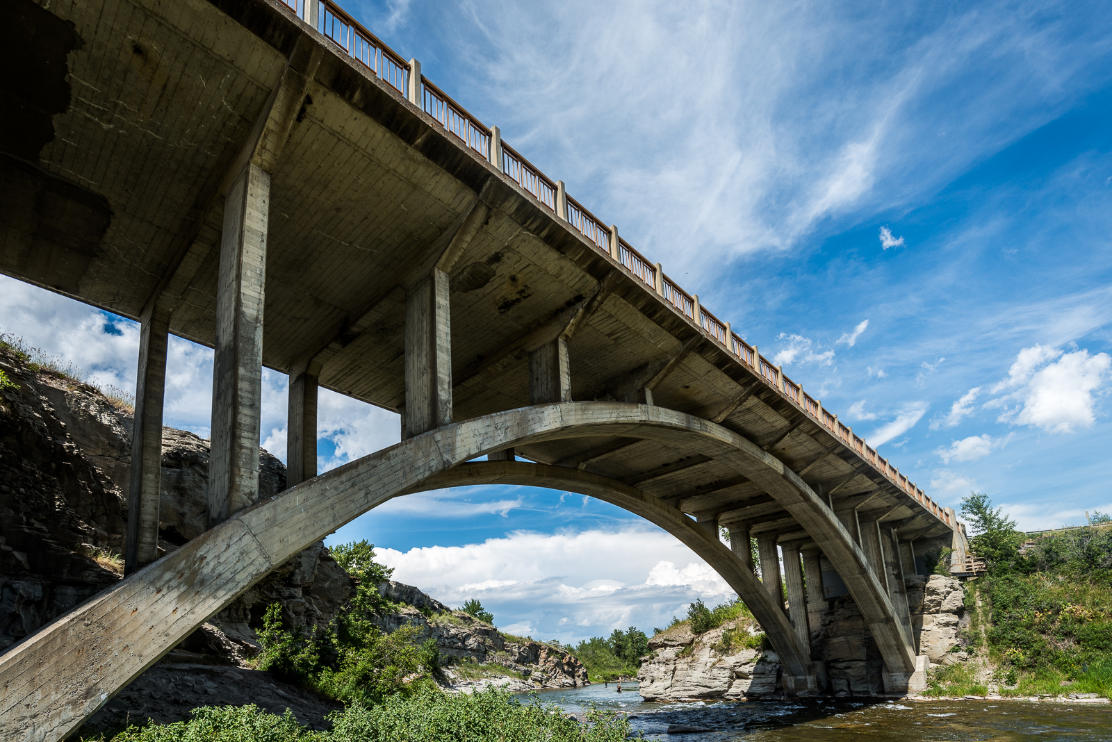 Alberta Highway 3 at Cowley, Alberta.